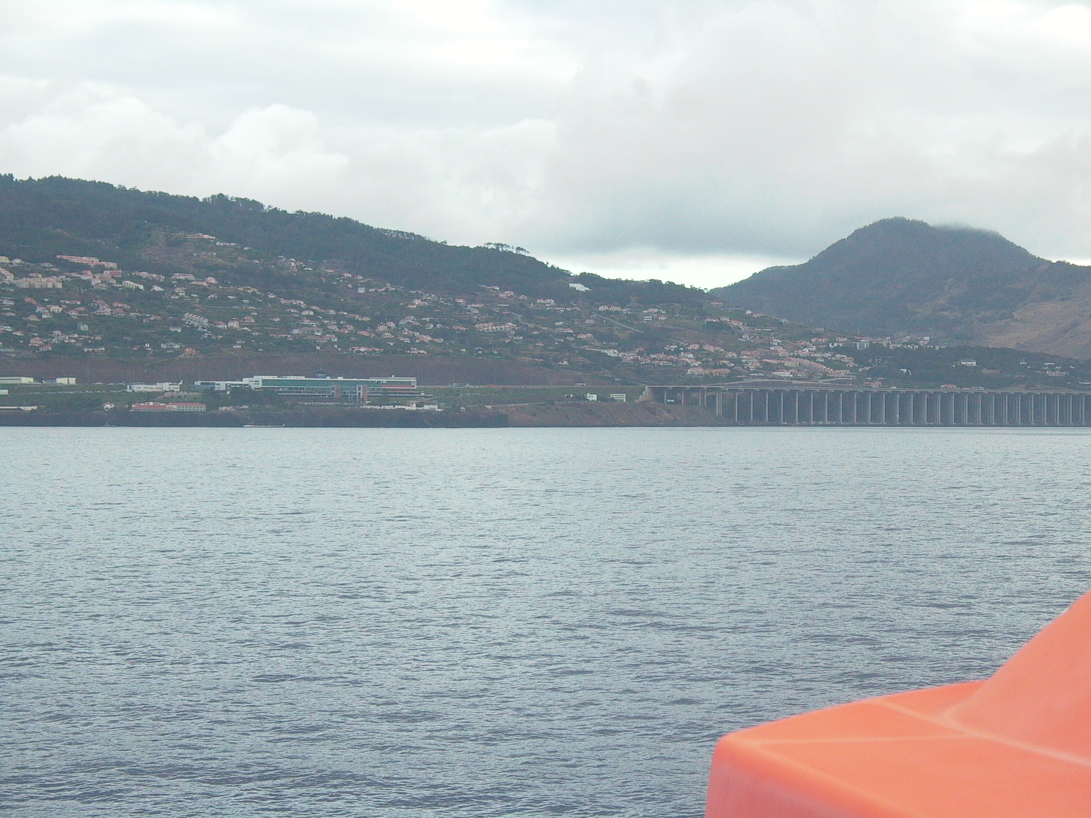 Madeira - Airport - view on the airport from sea